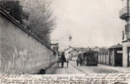 Druento, access to the village